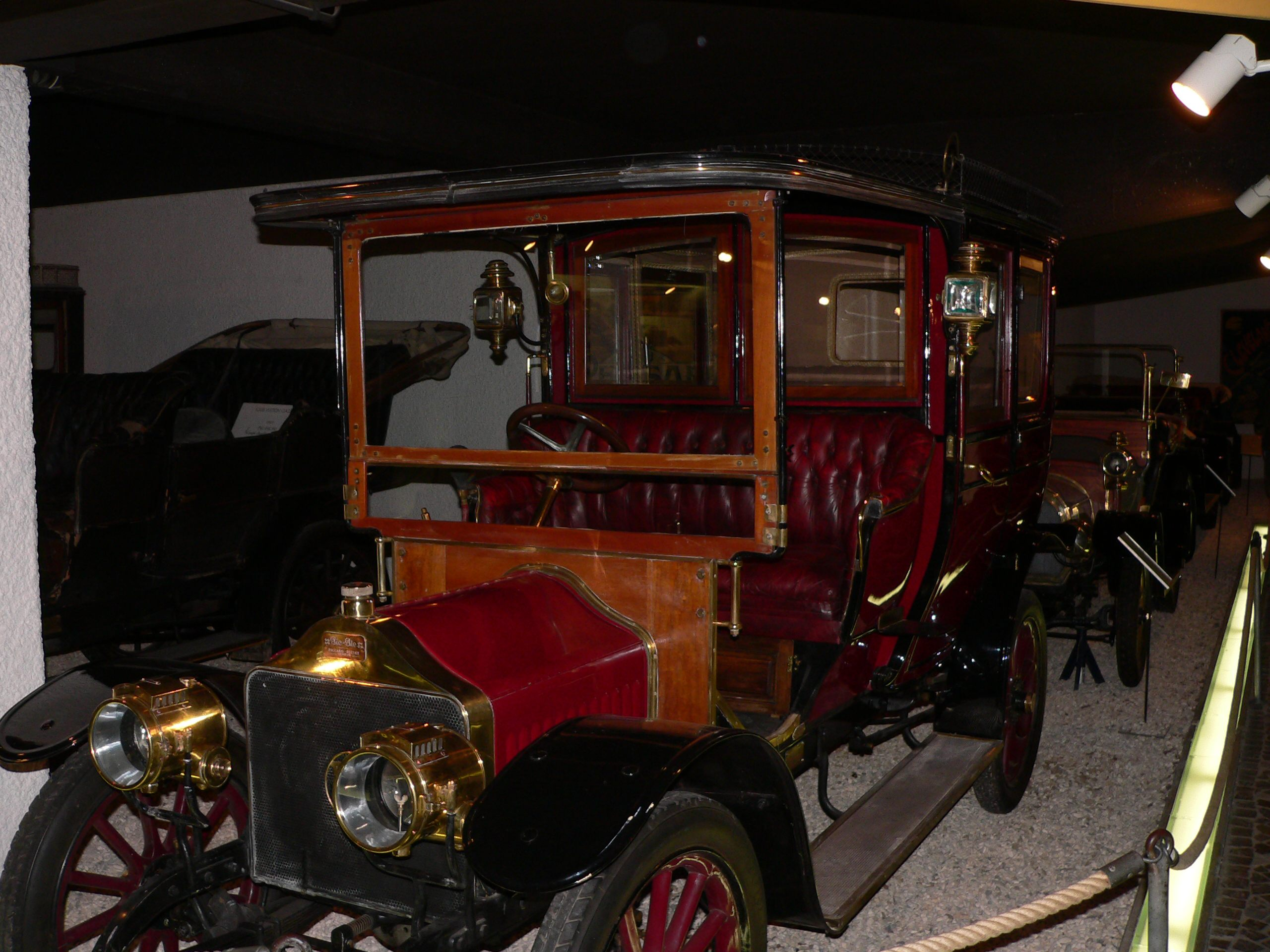 Pic-Pic 1911